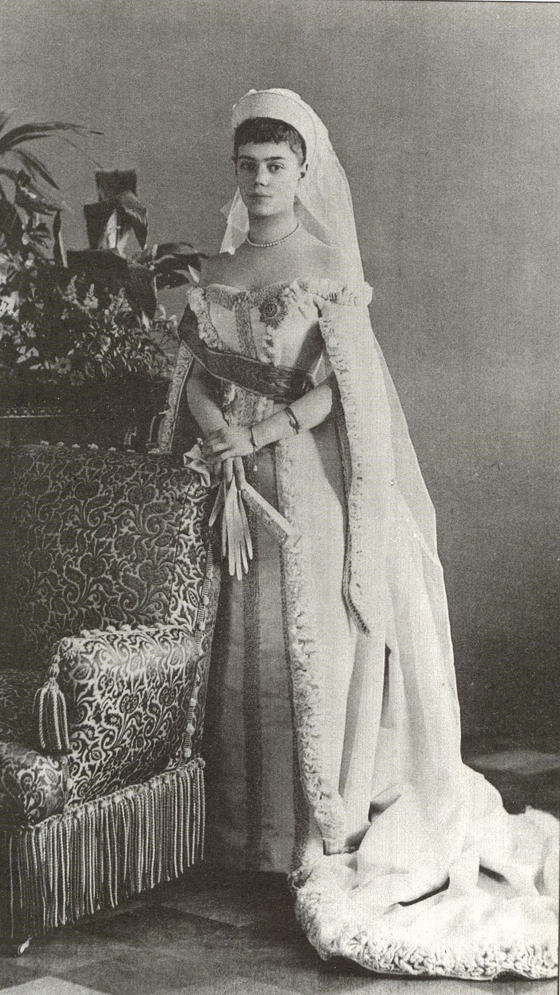 Xenia Alexandrovna of Russia